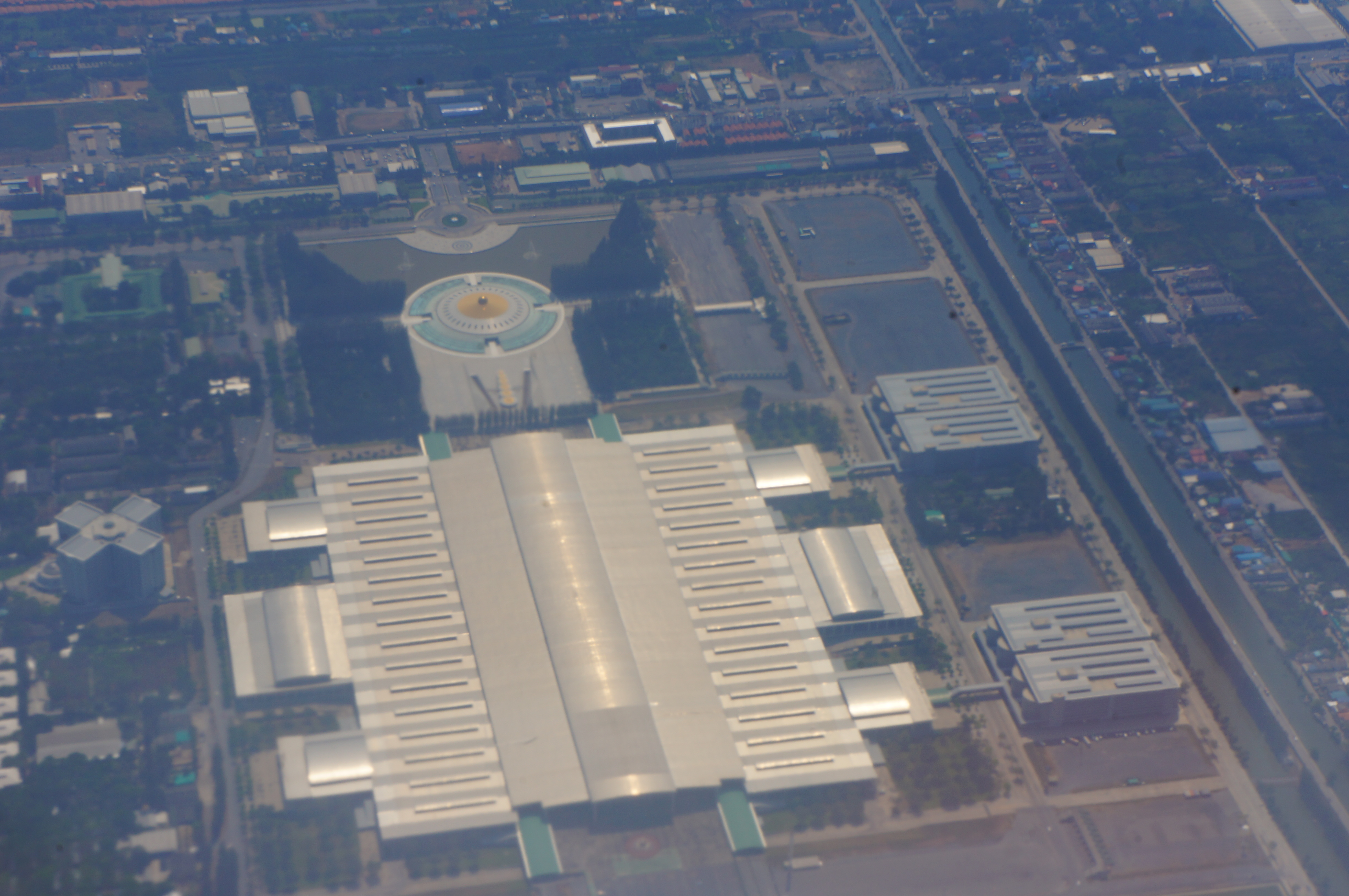 201701 Aerial Photo of Wat Phra Dhammakaya